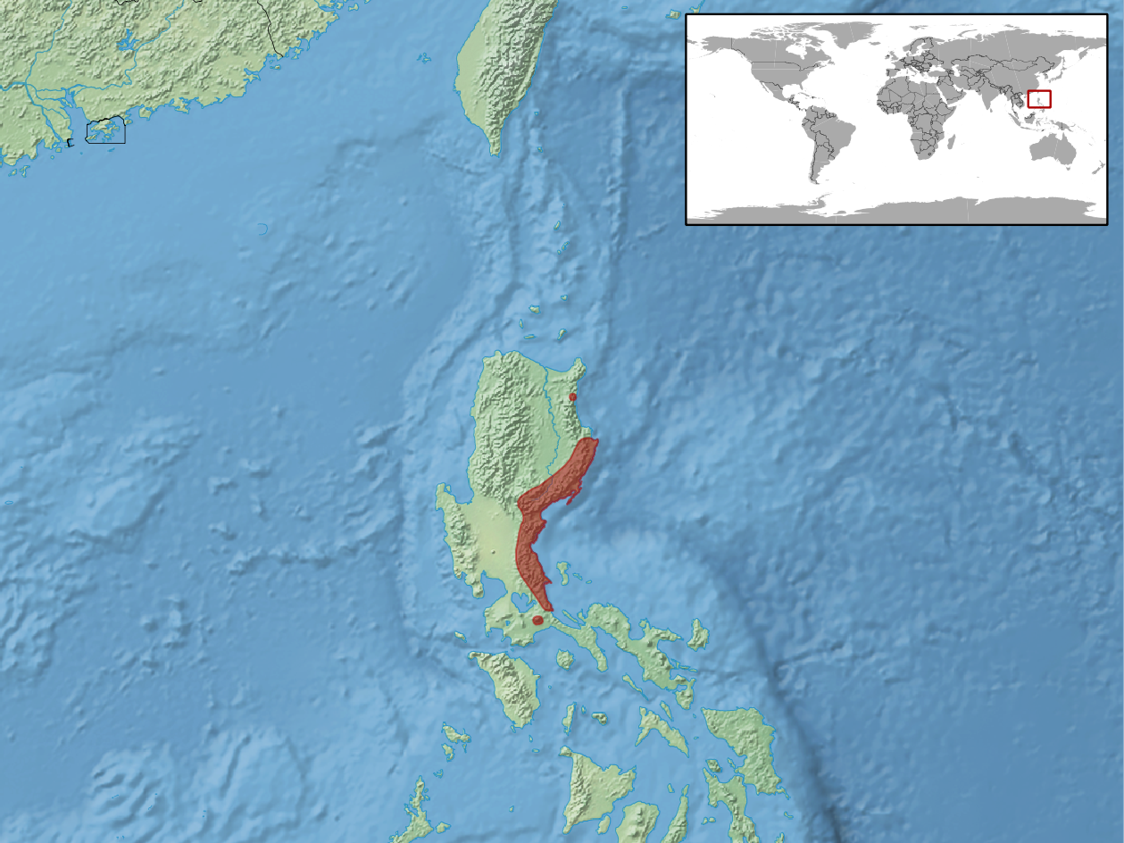 geographic distribution of Sphenomorphus leucospilos (IUCN) syn Parvoscincus leucospilos (RDB)